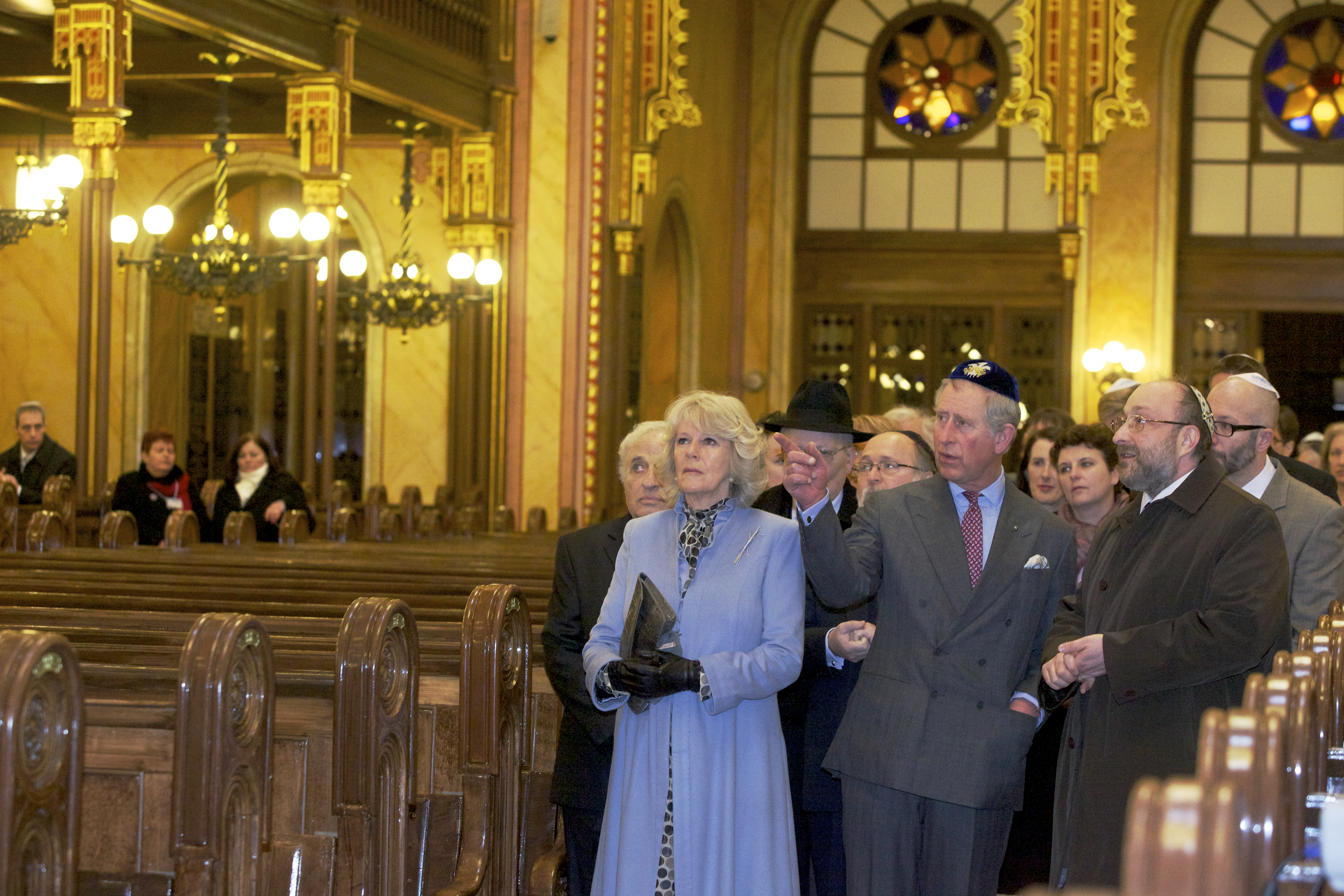 Camilla, Duchess of Cornwall (left), Charles, Prince of Wales (centre) and Chief Rabbi Róbert Frölich in the Dohány Street Synagogue, Budapest.